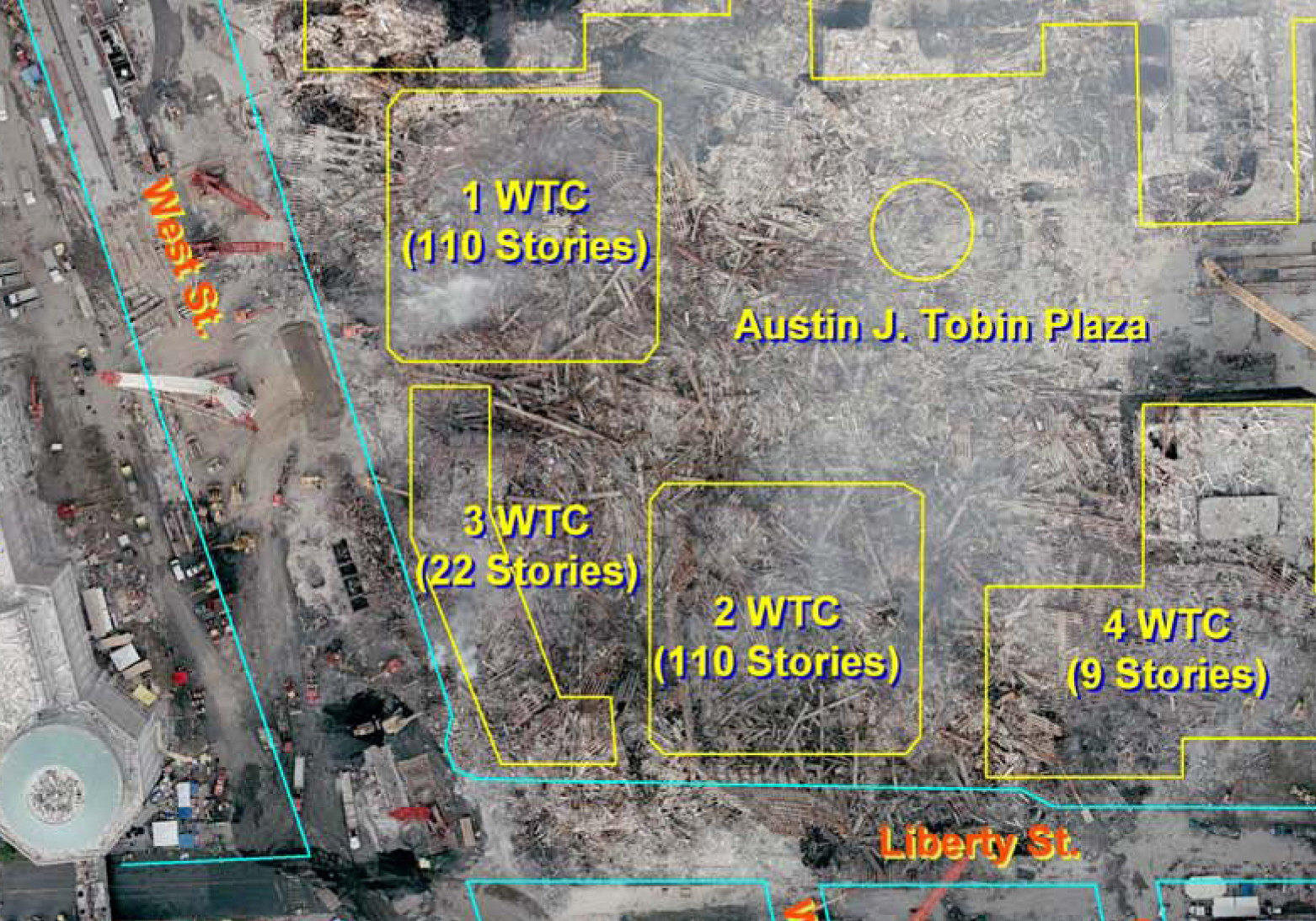 A photograph of the of the World Trade Center site (Ground Zero) with an overlay showing the original building locations. Cropped to show WTC 1-4